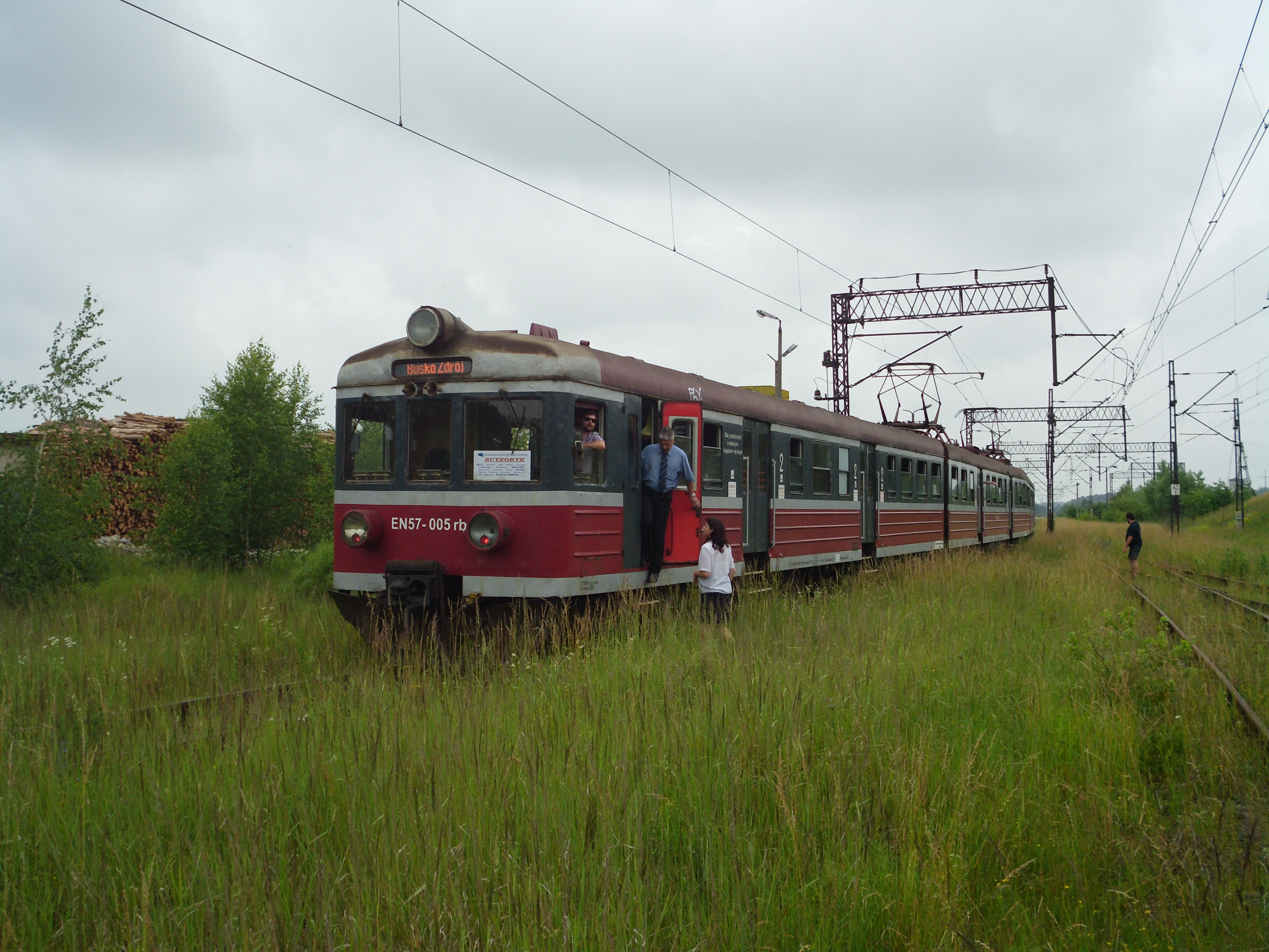 Electric unit EN57-005rb in the freight section of Busko-Zdrój station, the terminus of a railway from Sitkówka-Nowiny in Poland.